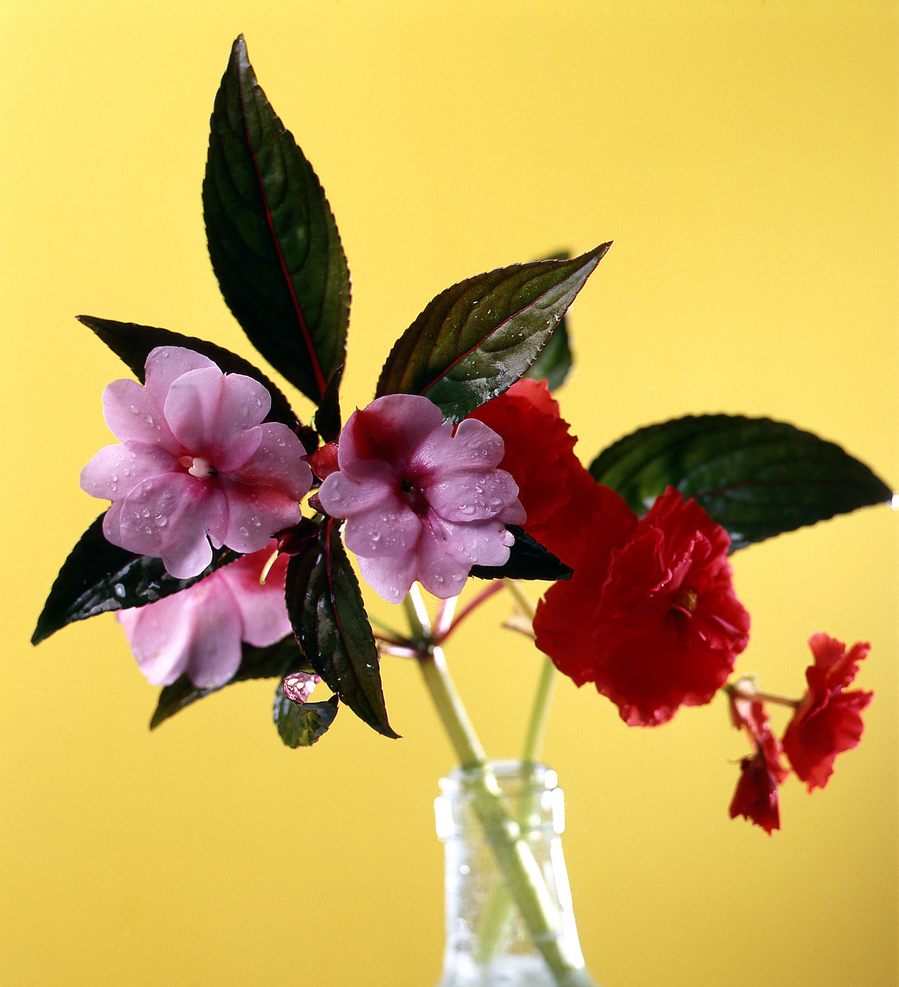 Impatiens walleriana Hook. F. (pale coloured) and Begonia x tuberhybrida (blazing red)